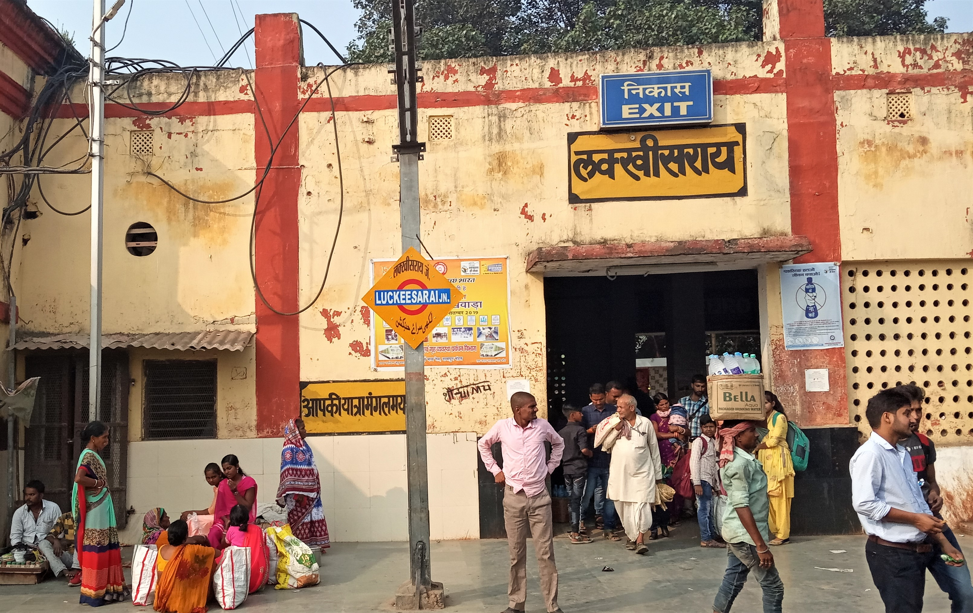 Luckeesarai Junction railway station